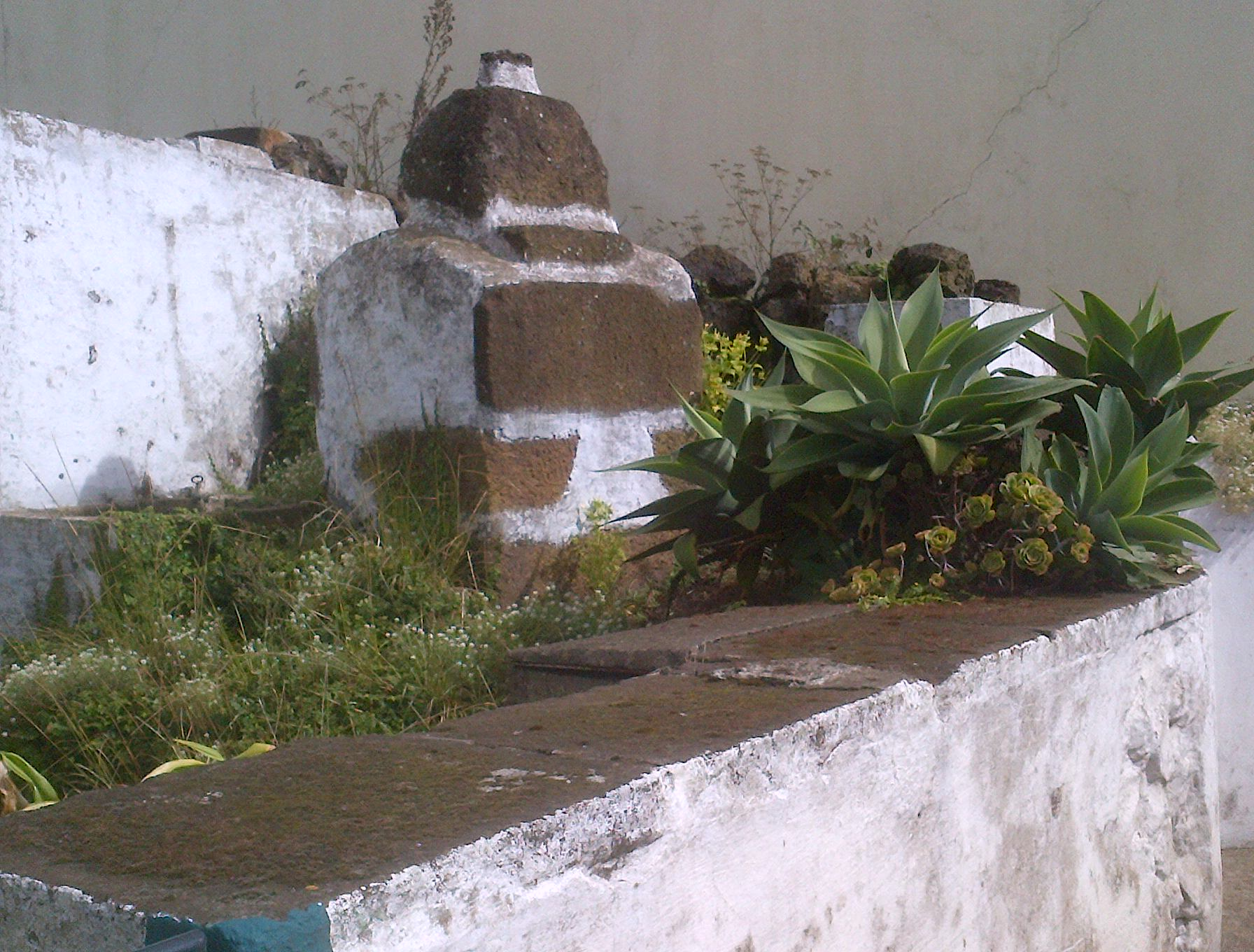 Boundary sign in between the old captaincies of Praia and Angra (at Feteira, Terceira, Azores).